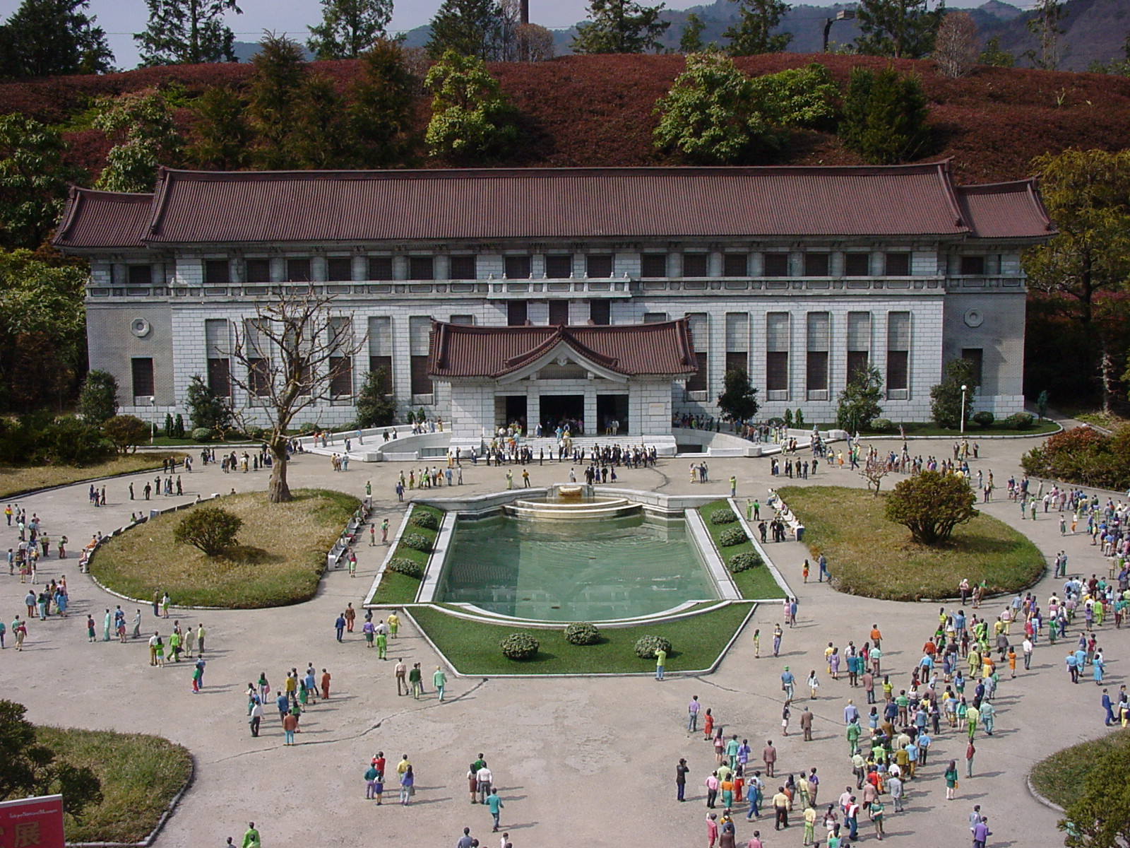 1:25 scale Miniature Japanese architecture at Tobu World Square